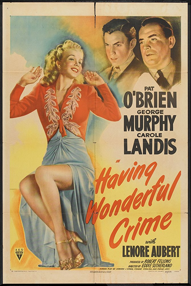 Movie Poster for Having A Wonderful Crime